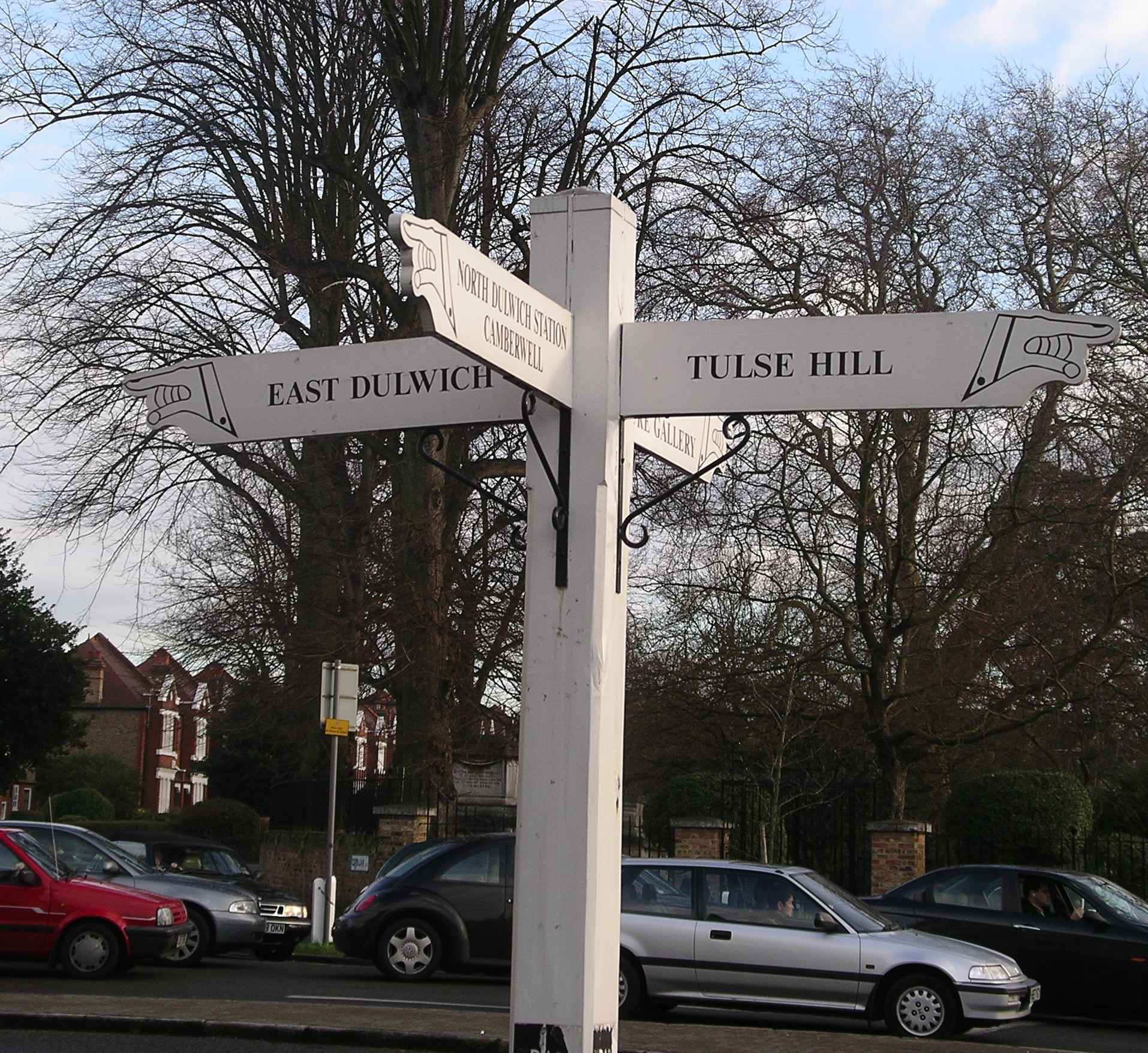 Finger sign-post, Dulwich village, January 2005. Author: Velela. Location: Finger style sign-post in Dulwich village, south London Source: Personal photograph taken by Author January 15 2005 Technical data: Pentax Optio 555 digital camera. 1/30s @ f3.4